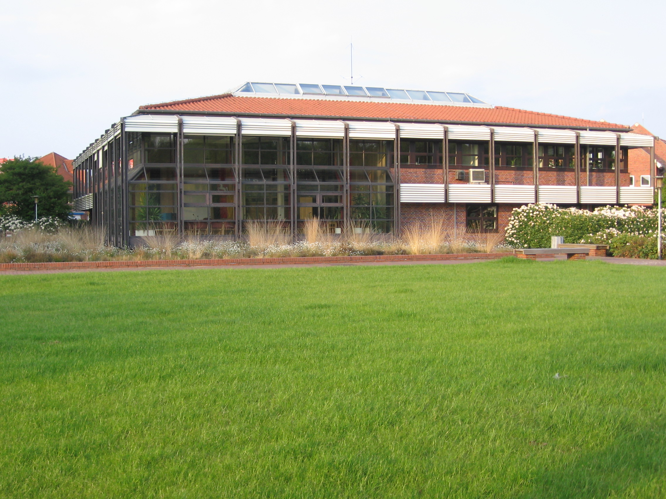 City hall of the German municipality Twist